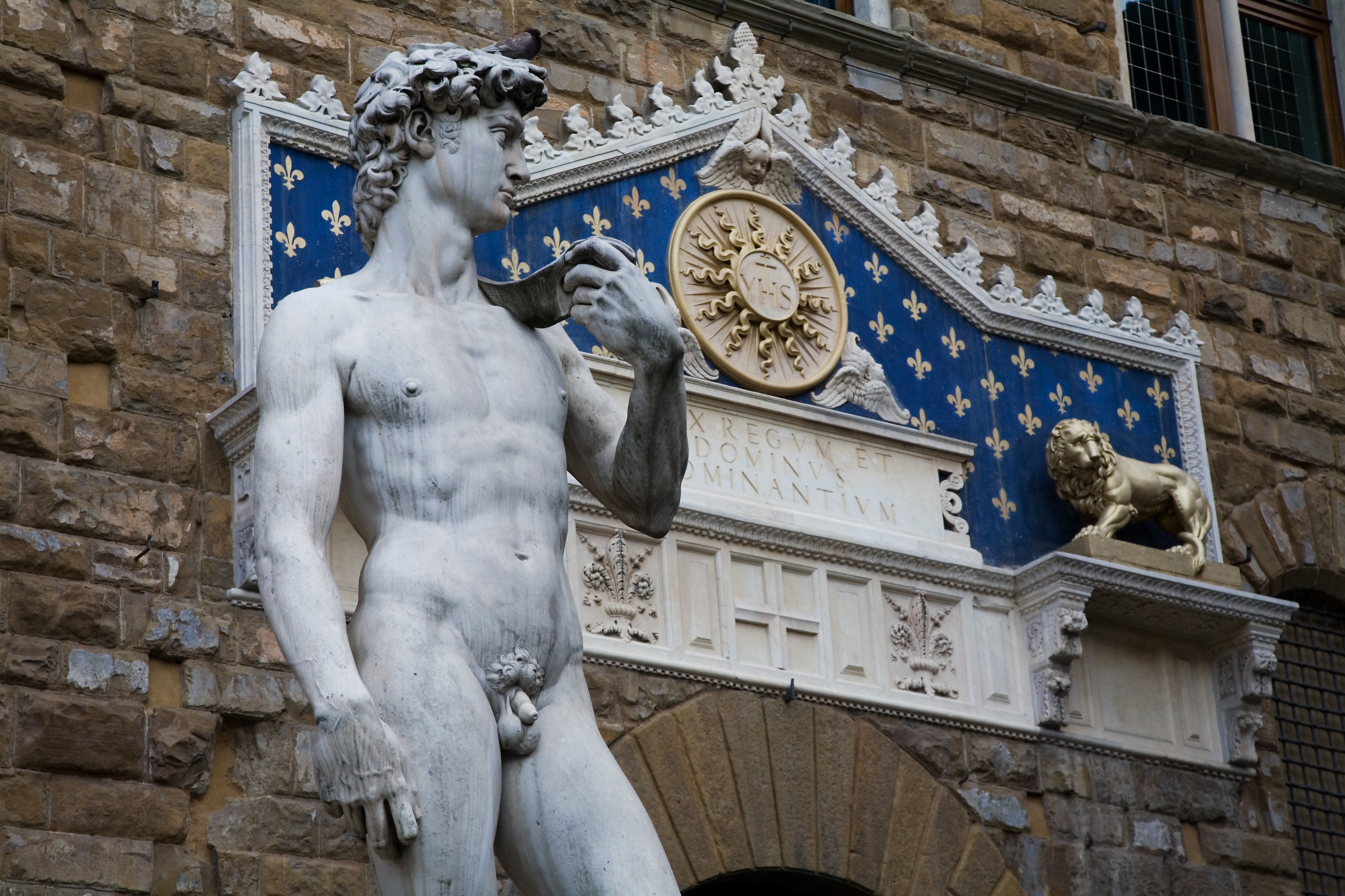 Marble replica of Michelangelo's David, Florence, Italy